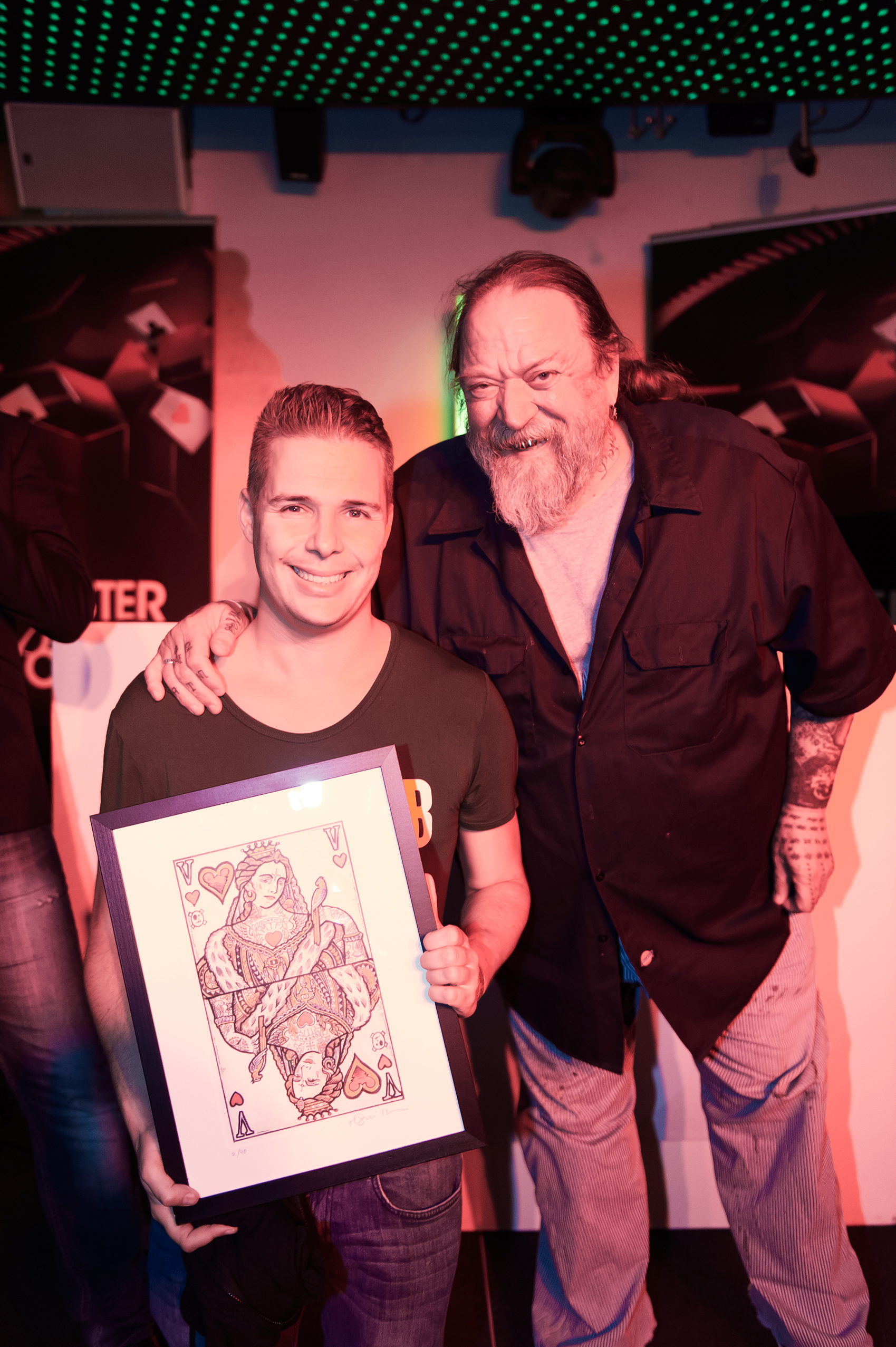 Poker player Noah Boeken and artist Henk Schiffmacher in Holland Casino, November 2015 during the inaugural inauguration of the Dutch Poker Hall of Fame.